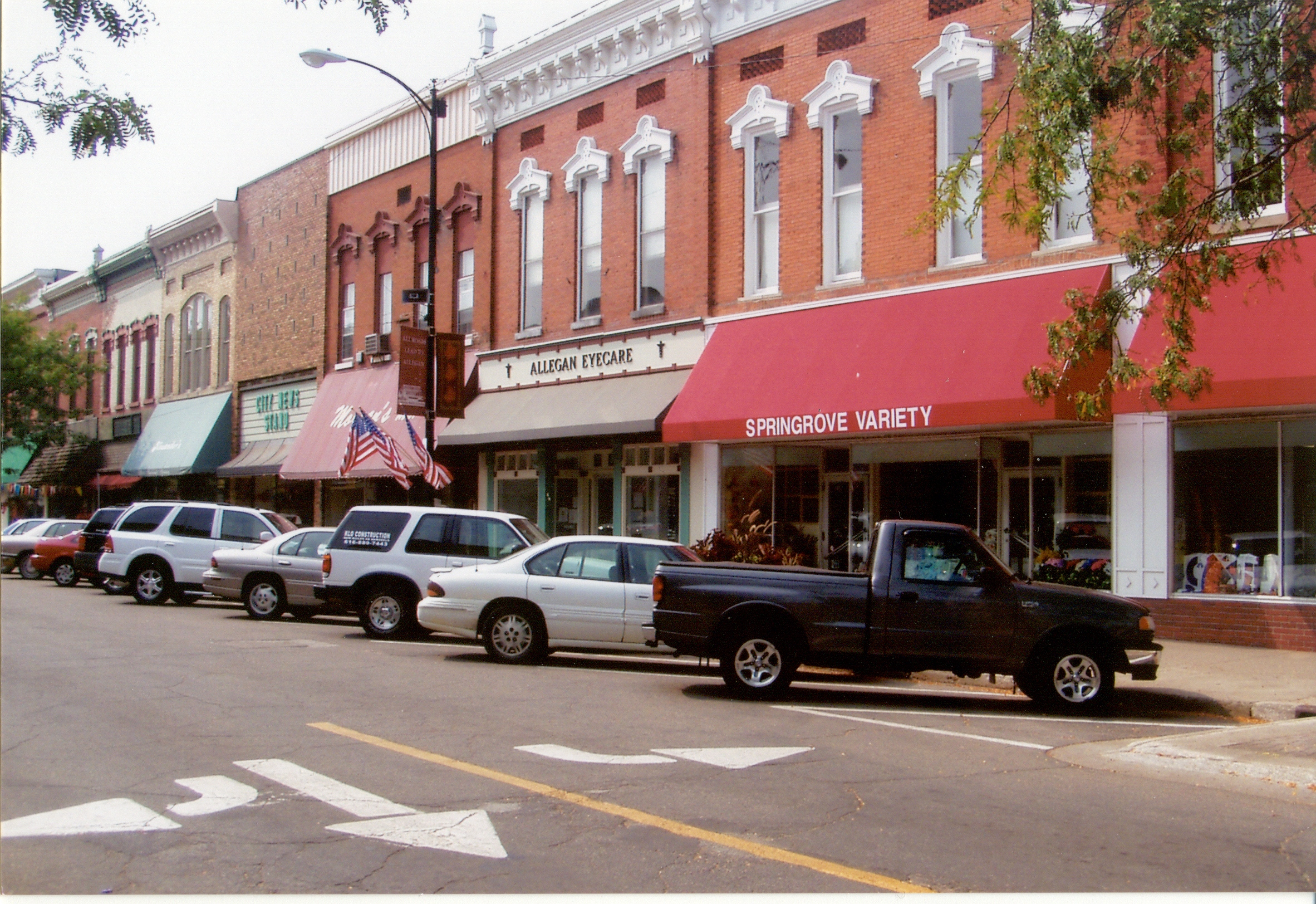 Main Street in Allegan, Michigan